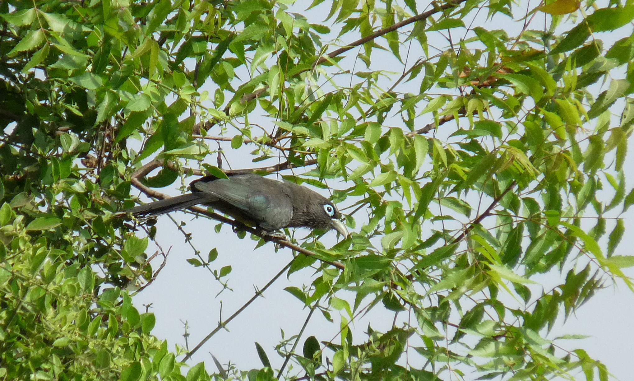 Blue-faced Malkoha Phaenicophaeus viridirostris. Photographed on a neem tree near Singanallur Lake, Coimbatore, Tamil Nadu, India.